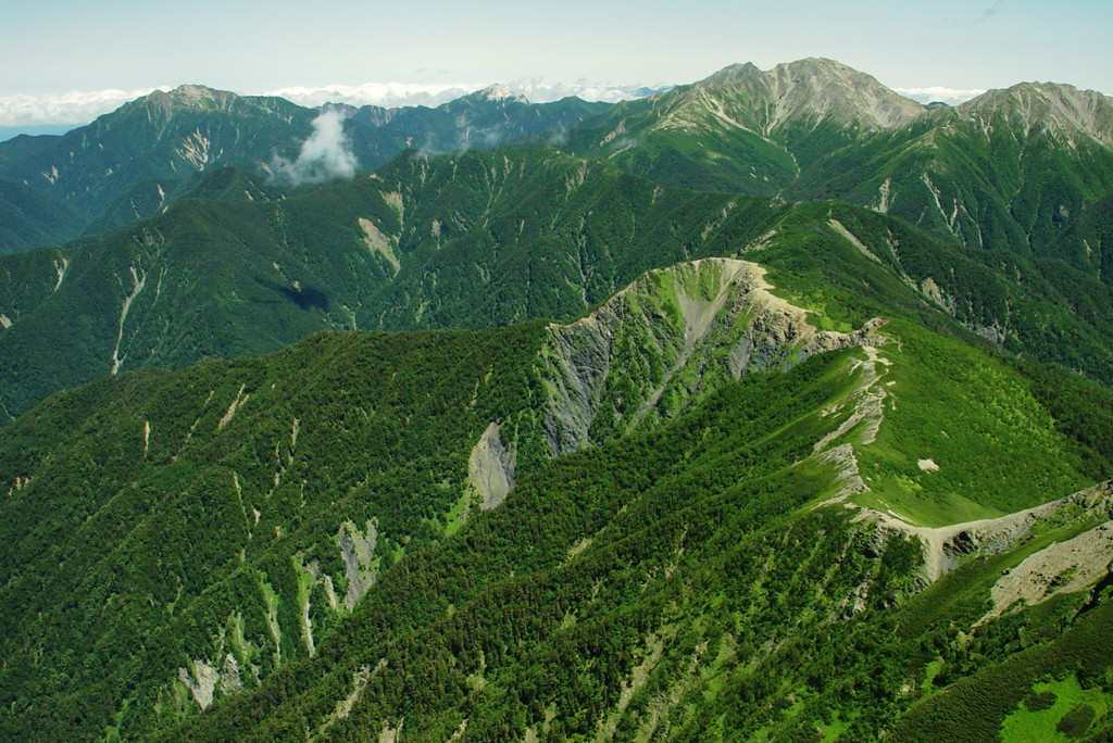 Abearkuradake and Mount Aino etc from Mount Siomi